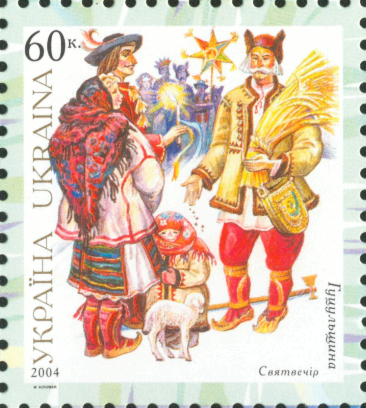 Stamp page (6 stamps) with Ukrainian traditional clothing